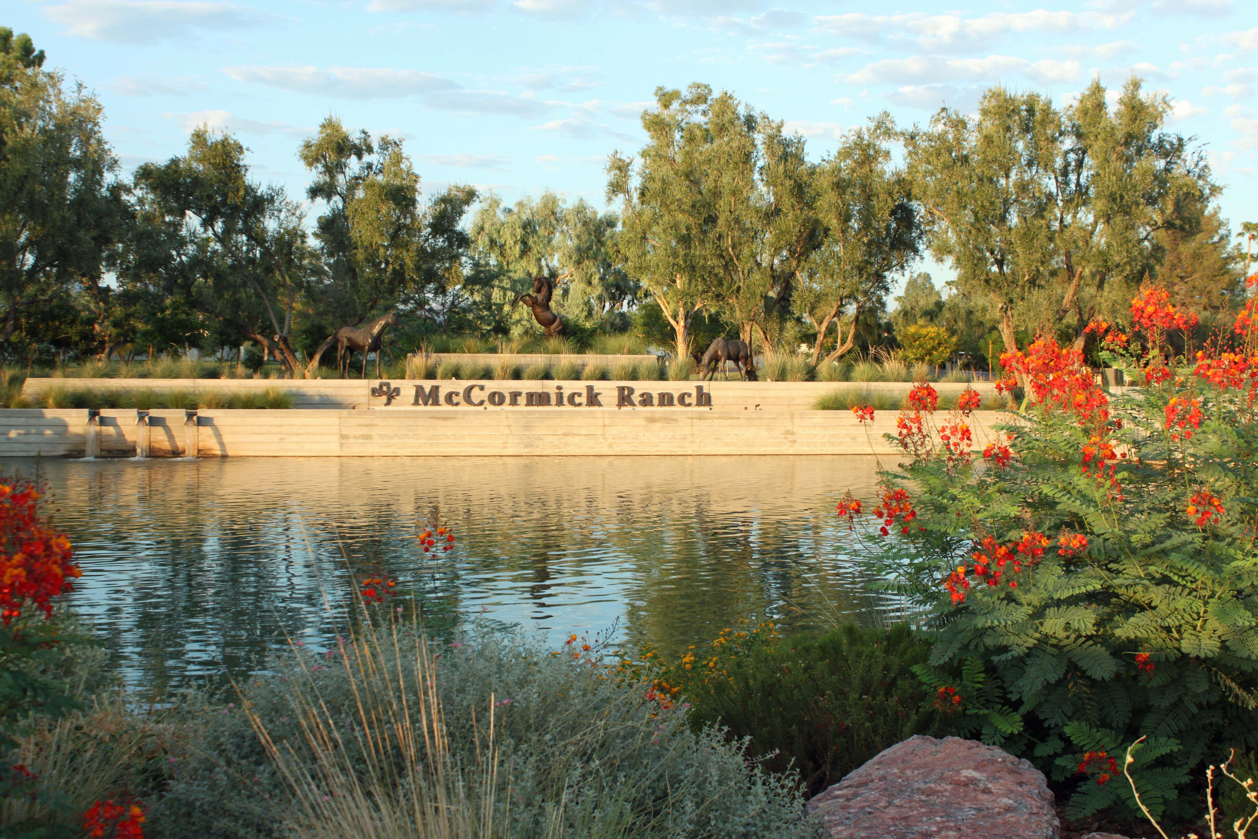 Entrance to the community from Scottsdale Rd on McCormick Parkway